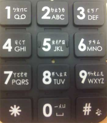 ZhuYin keypad for a mobile GSM phone